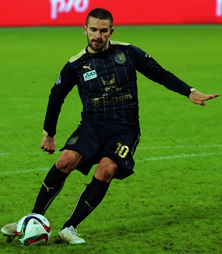 Marko Livaja